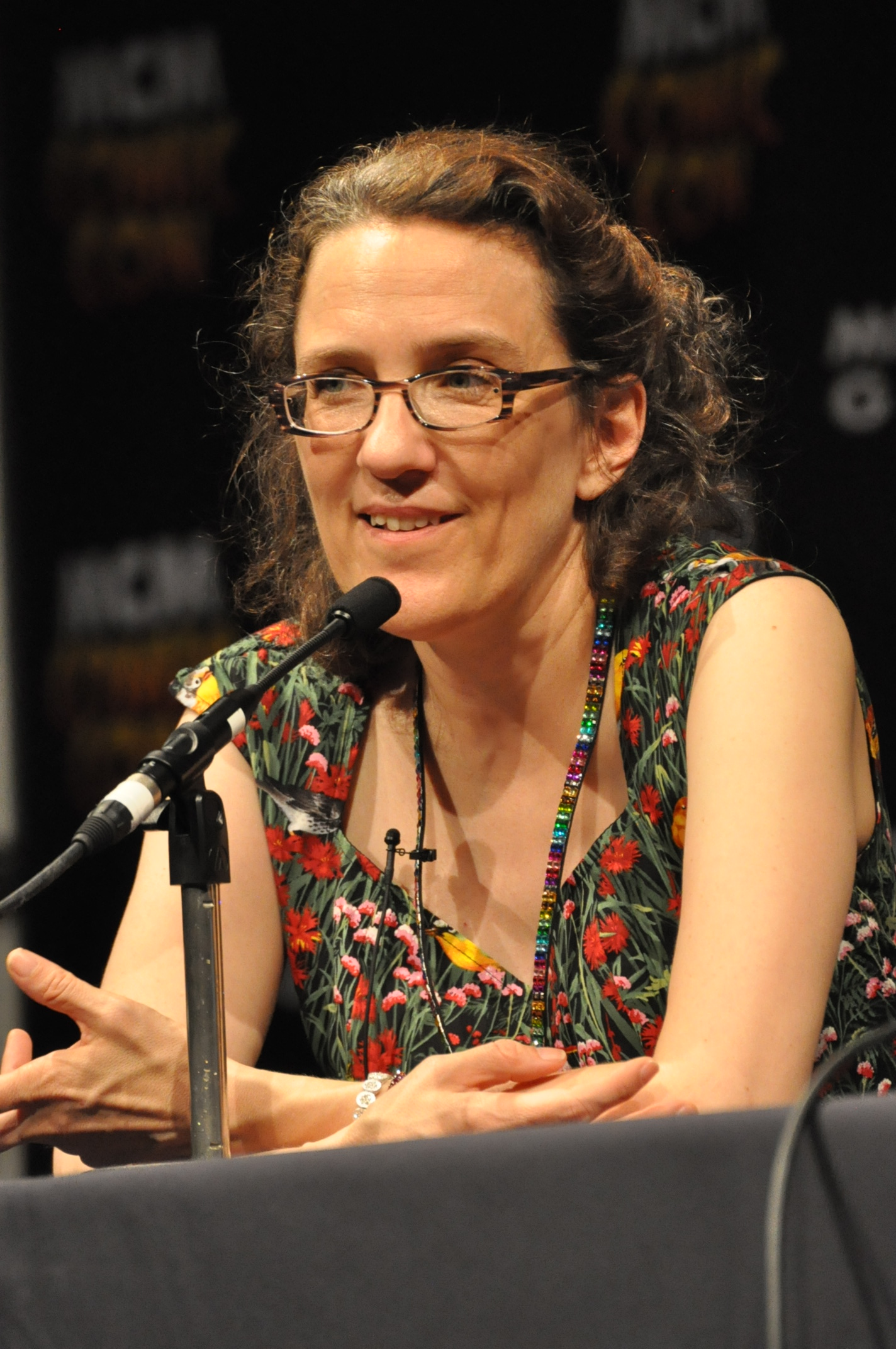 DSC_0633 MCM London Comic Con, Once Upon A Time Panel with Jane Espenson, Raphael Sbarge, Keegan Connor Tracy and Jessy Schram.